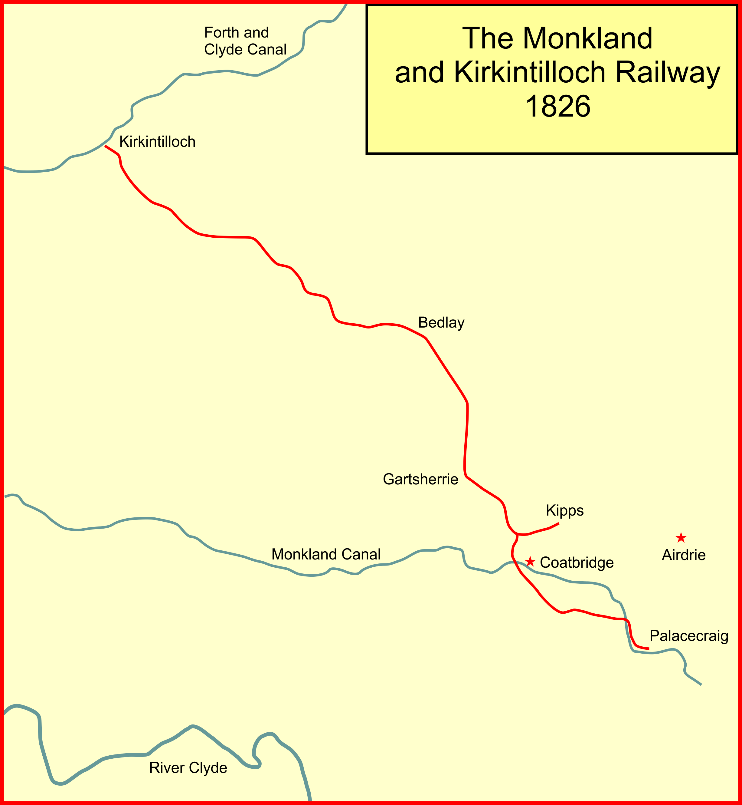 Map of Monkland & Kirkintilloch Railway when opened, with contemporary canals and modern railway routes